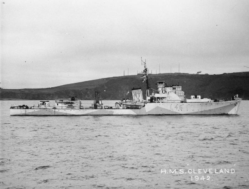 Photograph of British Hunt class destroyer HMS Cleveland, in Plymouth Sound.